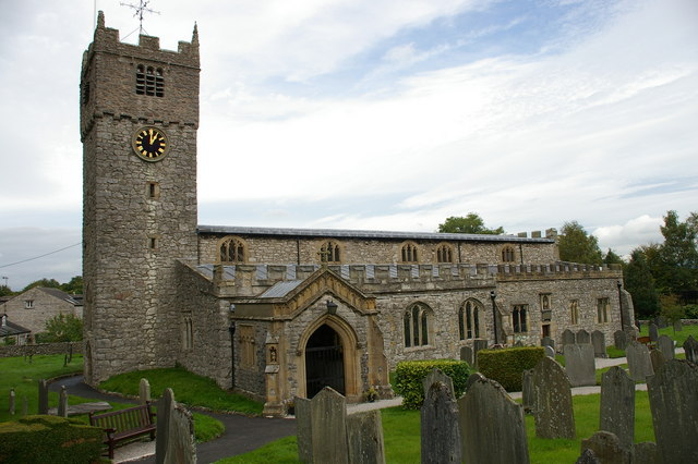 St Michael and All Angels Church, Beetham